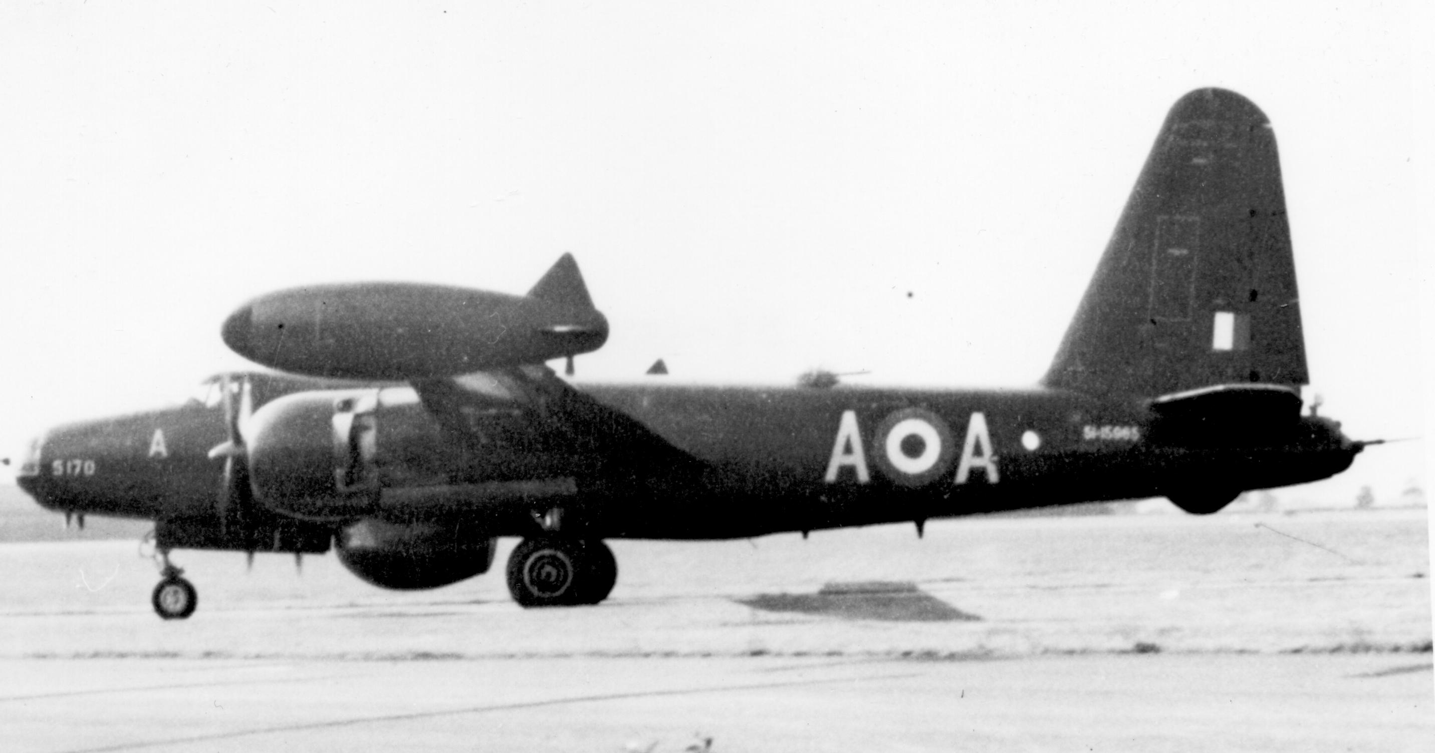 Lockheed P2V-5 Neptune MR.1 of 217 Squadron Royal Air Force